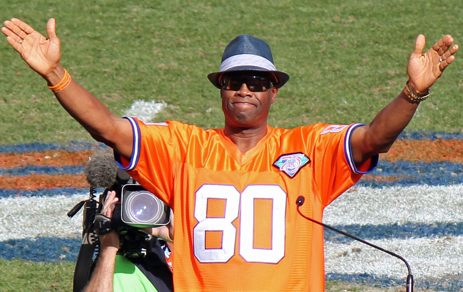 Rick Upchurch, a former player on the National Football League.